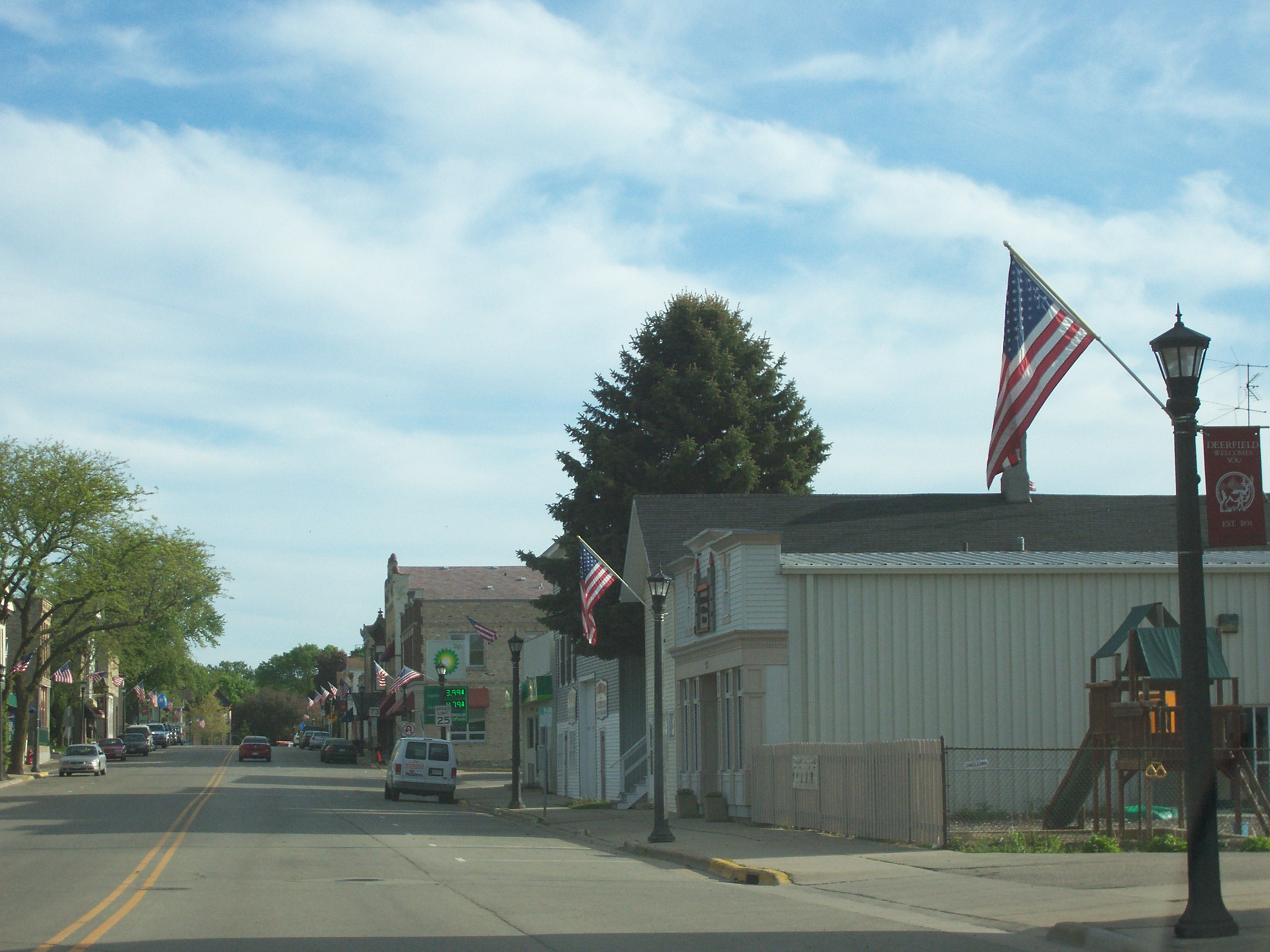 Looking south at downtown Deerfield, Wisconsin while traveling on Wisconsin Highway 73.